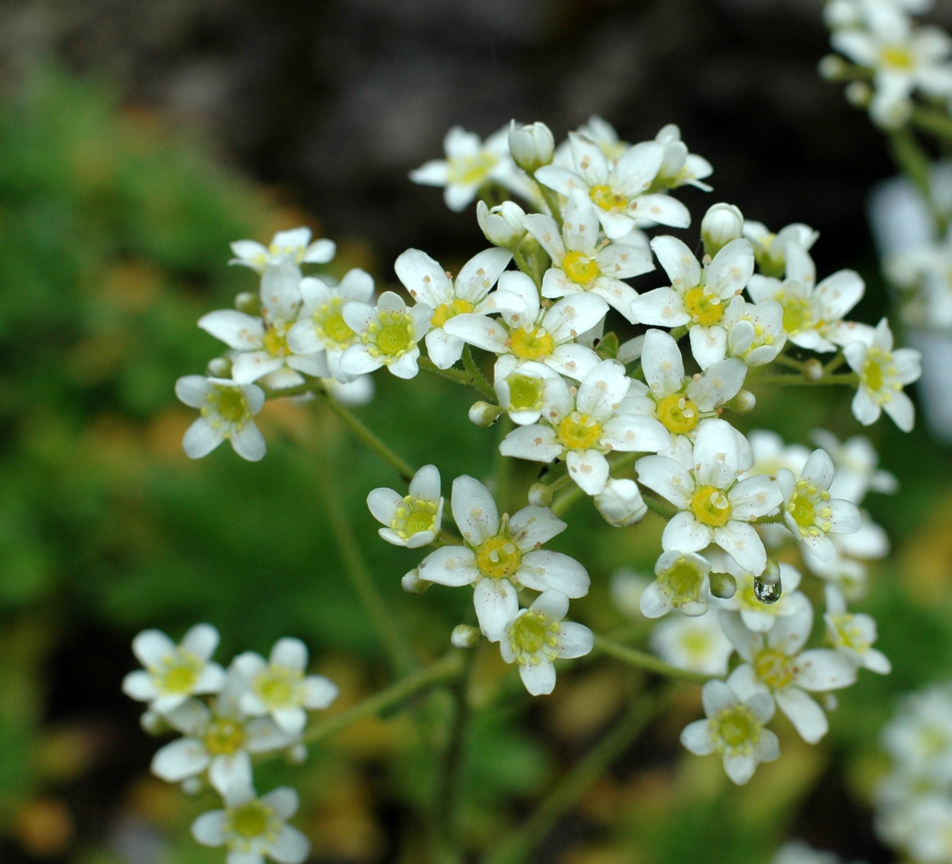 Saxifraga hostii ssp. hostii at Rennsteiggarten near Oberhof/Thuringia (Germany)